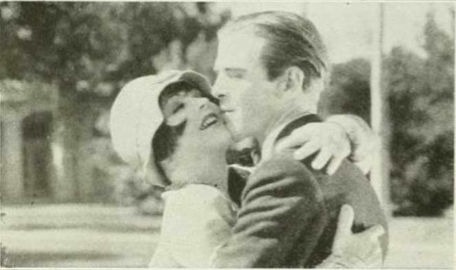 Promotional photo from the silent motion picture The Plastic Age (1925).